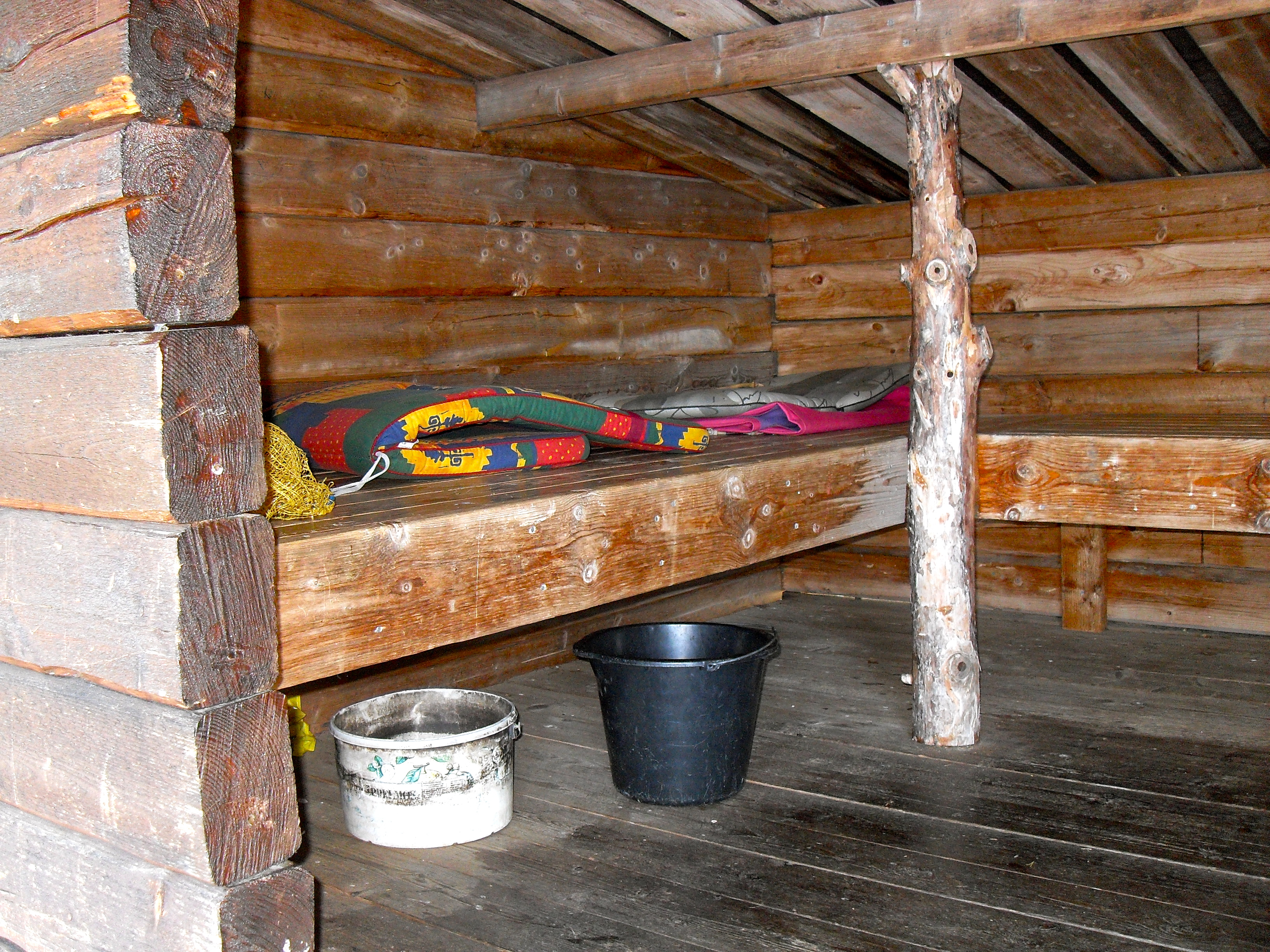 Inside of the shelter for hikers on Tjustleden in Småland, Sweden.